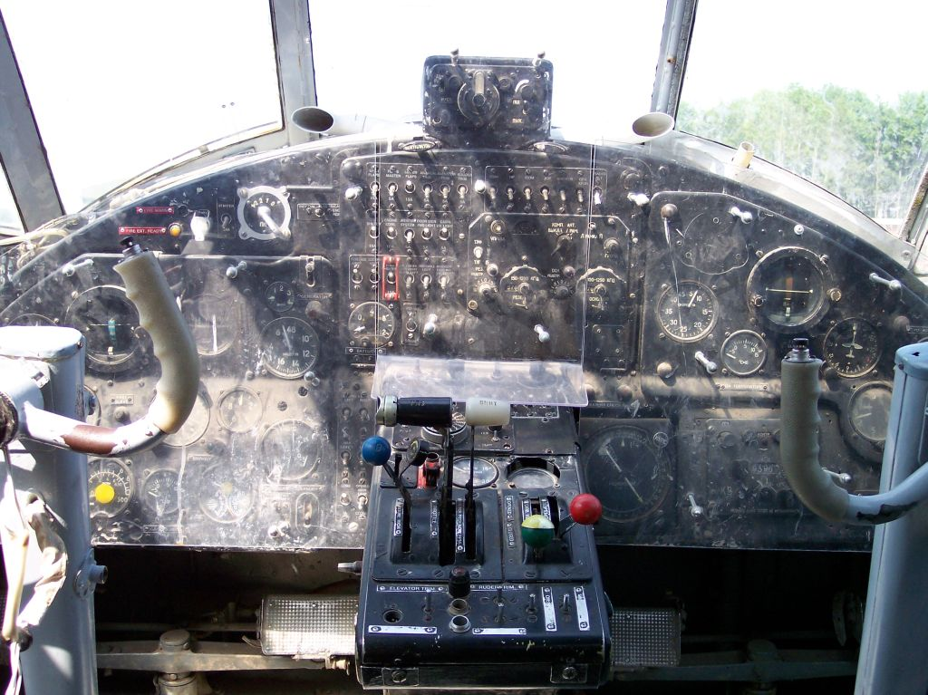 Antonow An-2 Cockpit